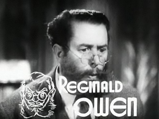 Cropped screenshot of Reginald Owen in the trailer for the film Dangerous Number